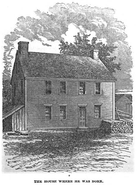 Great in goodness: a memoir of George N. Briggs, p. 17 By William Carey Richards (1867)